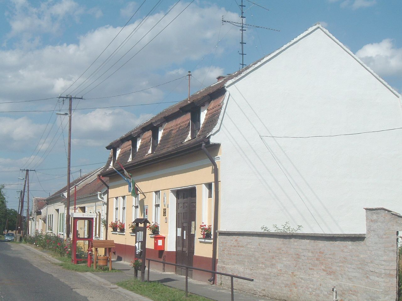 The Mayor's Office in Ólmod, Hungary